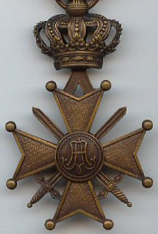 1914-1918 Belgian War cross (reverse)